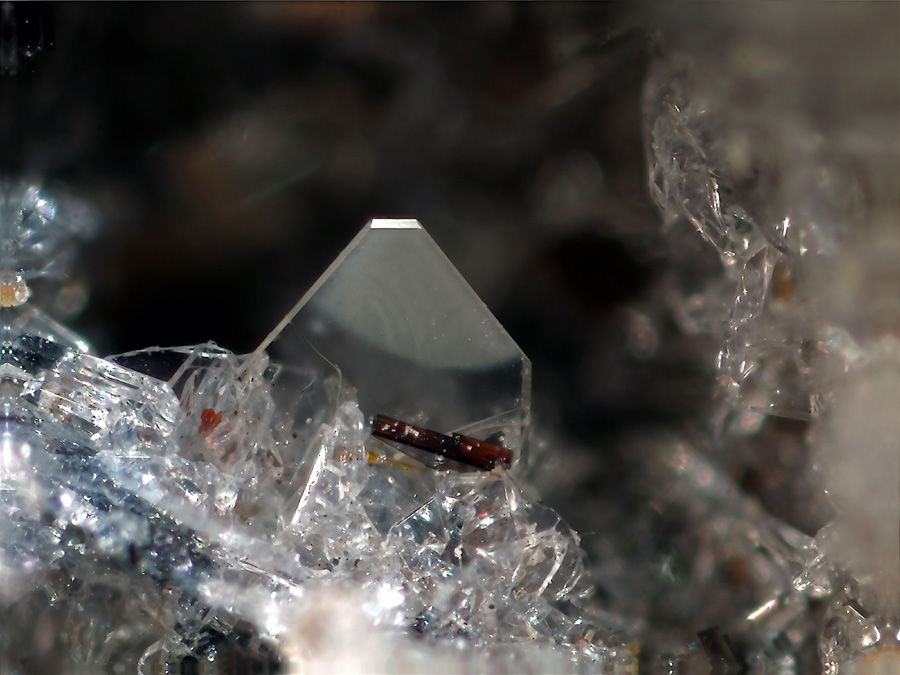 Forsterite - Not every thin tabular colorless crystal is sanidine. This is a thin Forsterite tabular (image width: 1.5 mm). Forsterite specimens are very typical with lots of tiny "broken" Sanidine and rounded Hematite crystals. - Locality: Wannenköpfe, Ochtendung, Eifel region, Germany